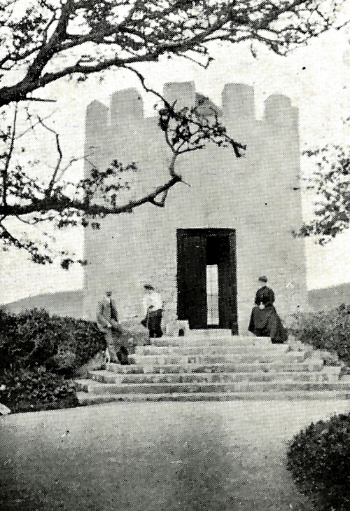 Photograph (circa 1911) of Siddons Tower, an 18th century folly tower built by Murrough O'Brien, Lord Inchiquin, in honour of the actress Sarah Siddons.